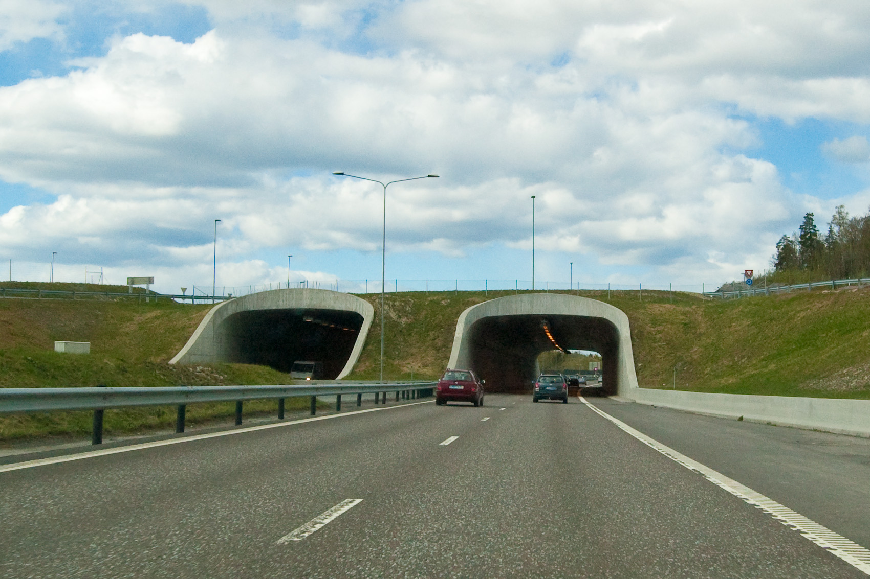 Undrumsdalskrysset tunnel, Re, Vestfold, Norway. Seen from the south.